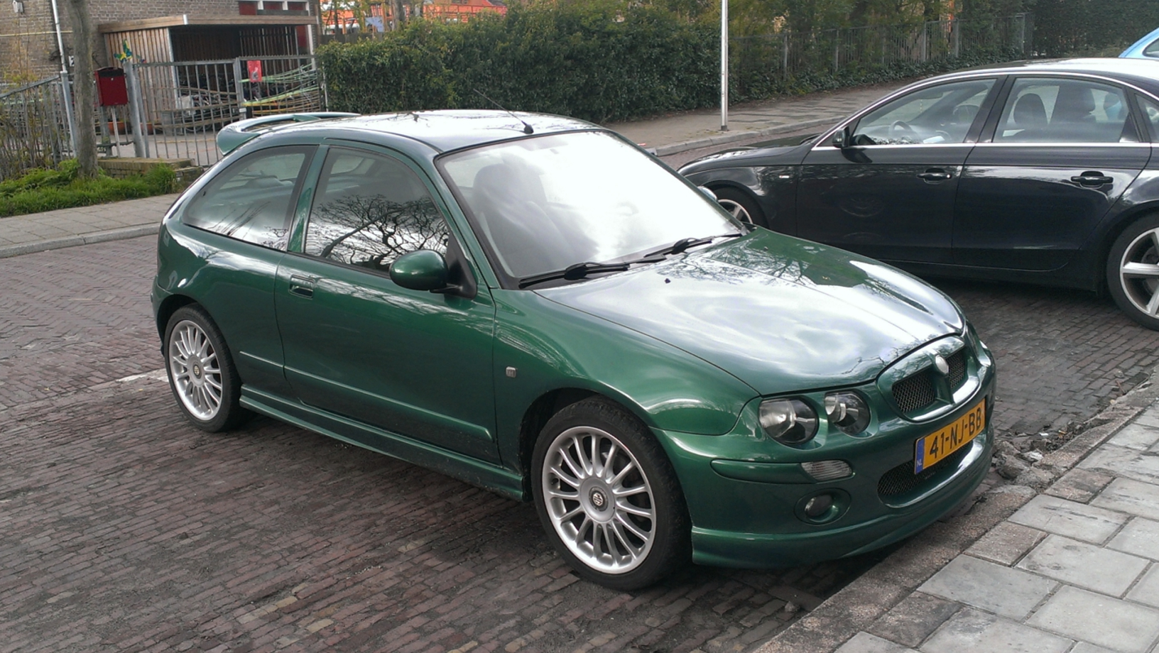 2003 MG ZR 105 Le Mans